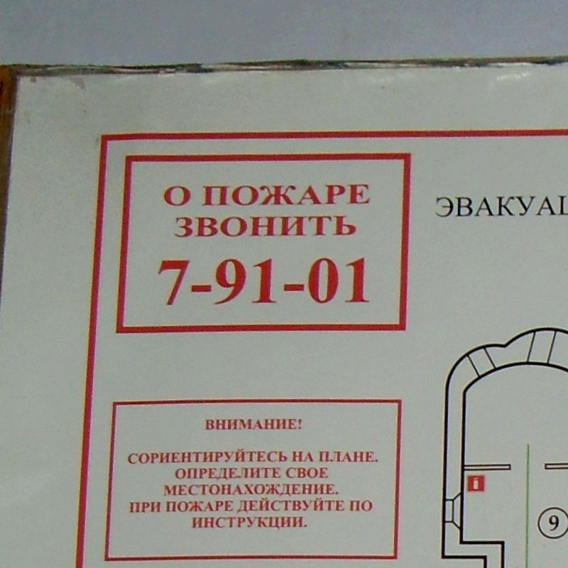 Телефон вызова пожарных, Сольвычегодск